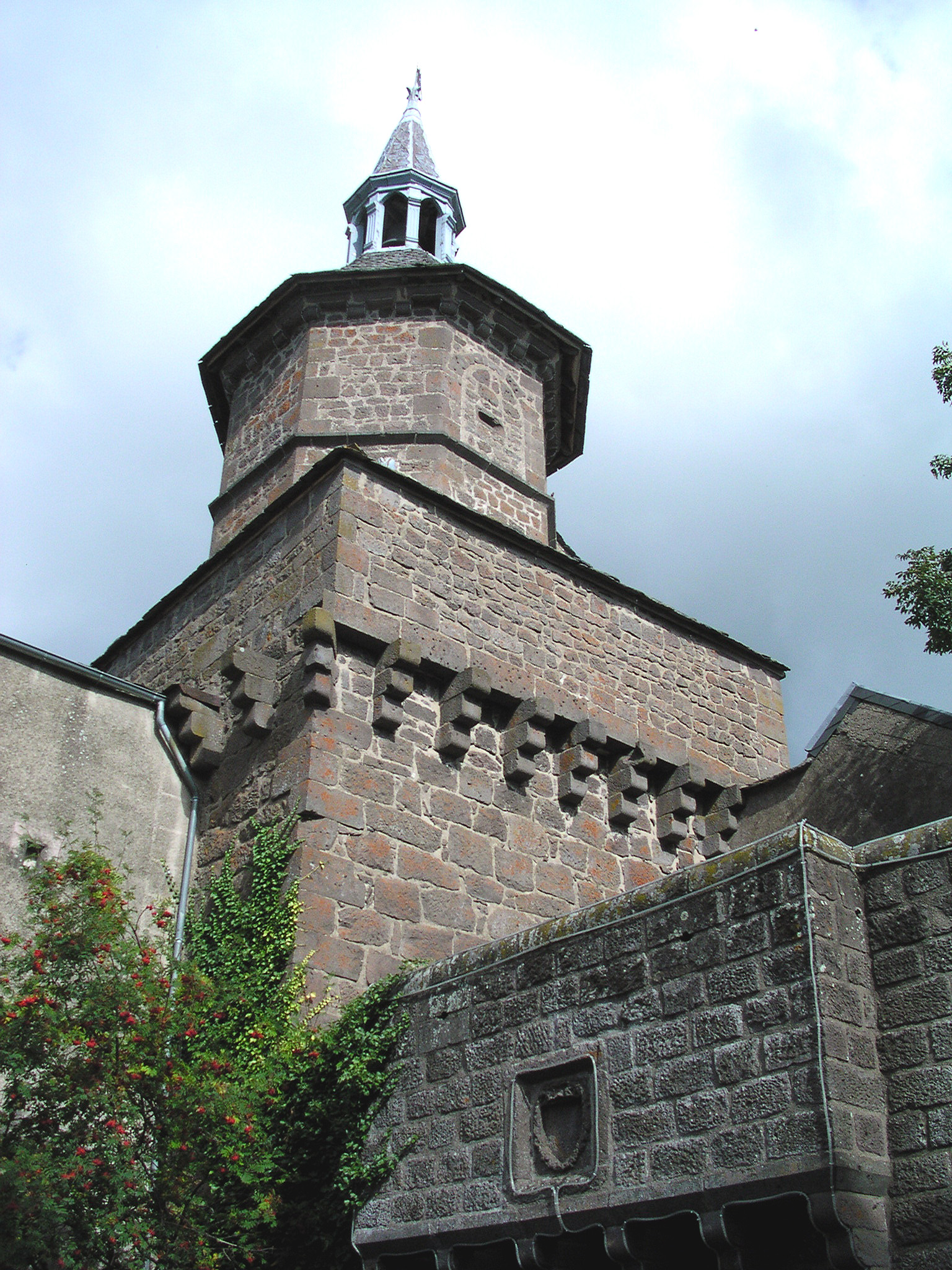 Besse-et-Saint-Anastaise (Puy-de-Dôme, France), the beffroy over the Meze gate